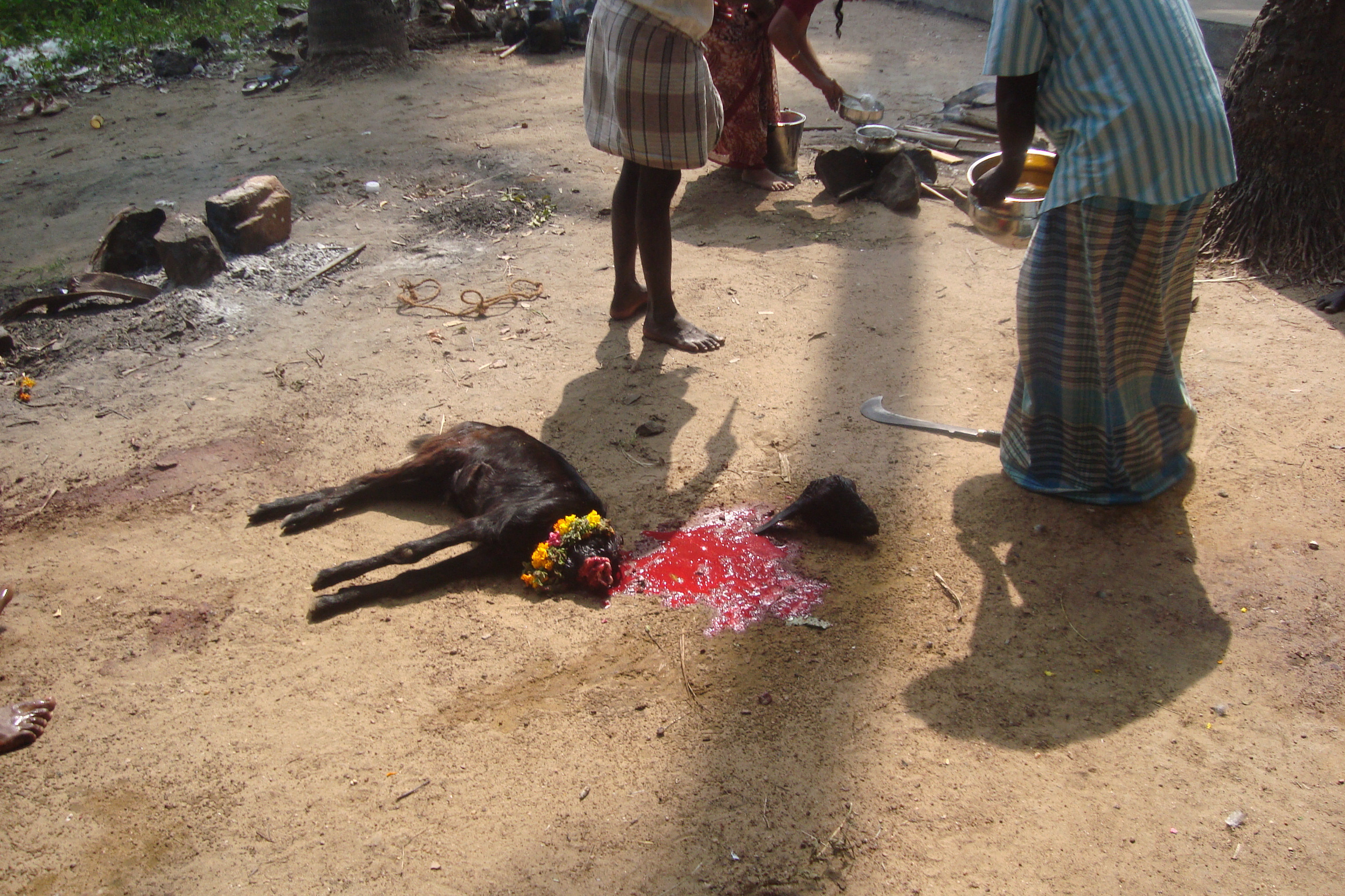 Sacrificial goatUnknown பலியிடப்பட்ட ஆடு